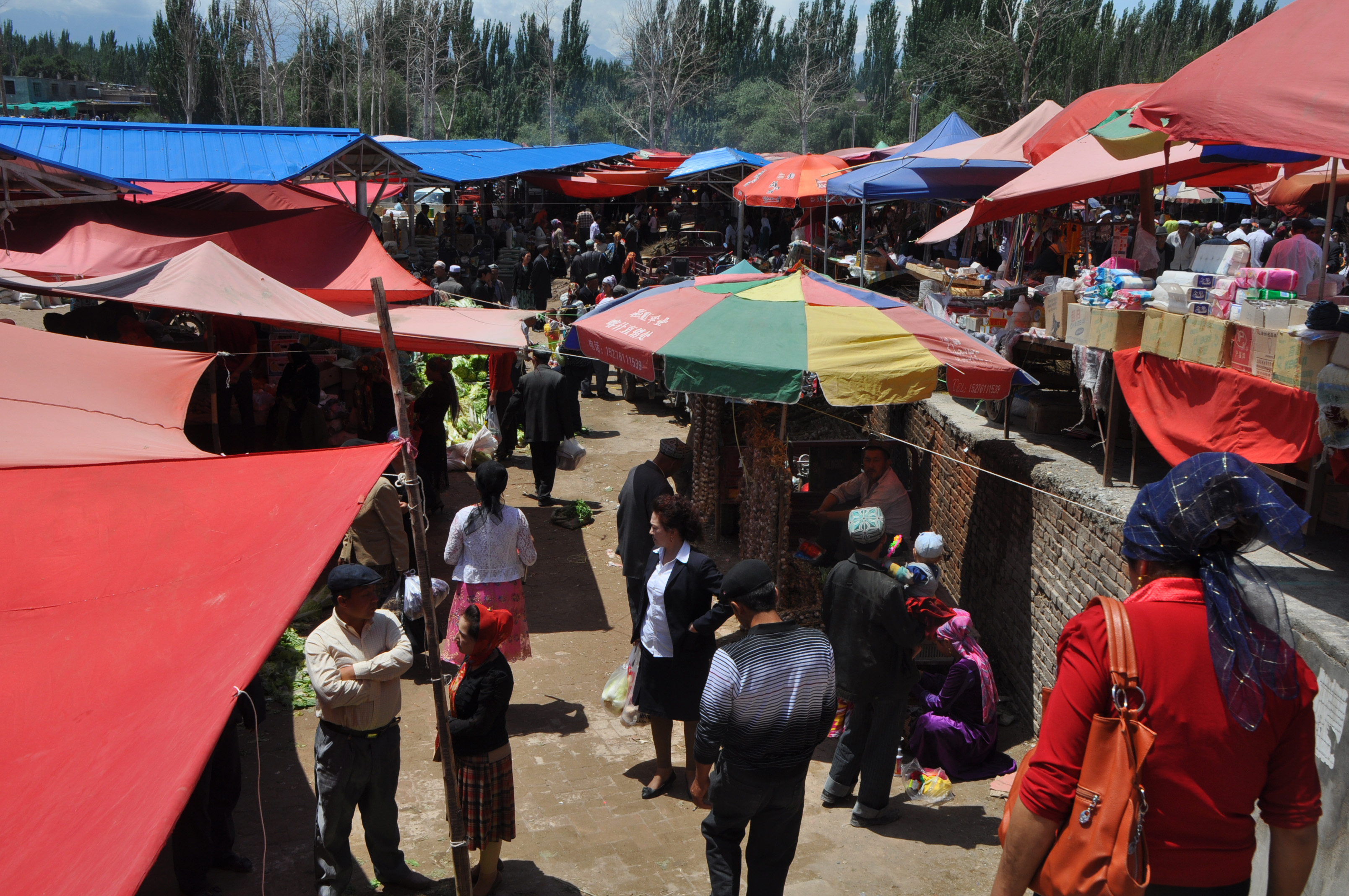 Monday Bazaar i Upal, Xinjiang, China - Selling Under Large Tents